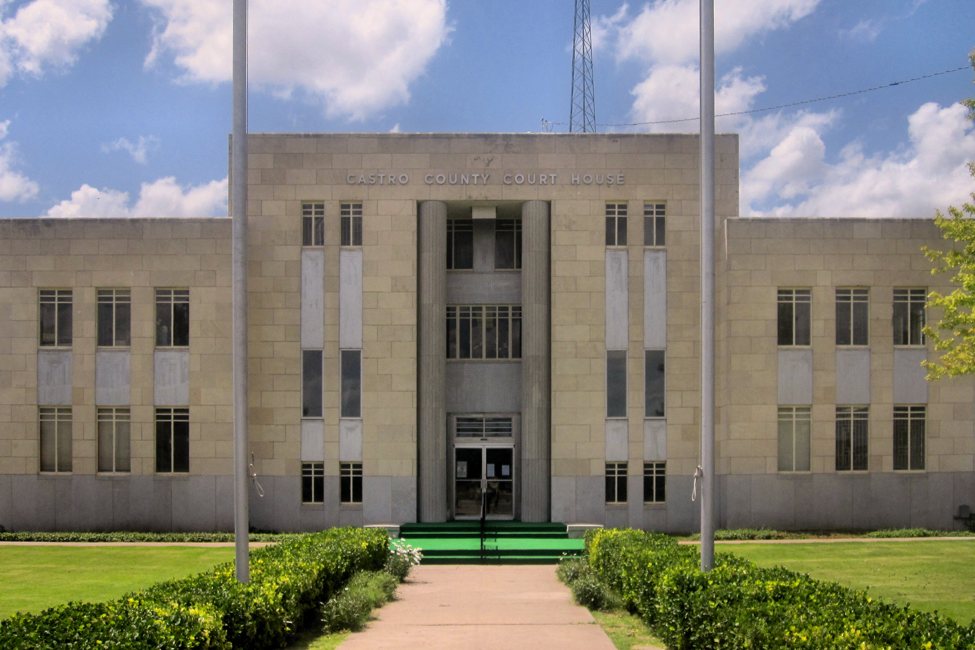 Castro County Courthouse. I took photo with Canon camera in Dimmitt, Texas.